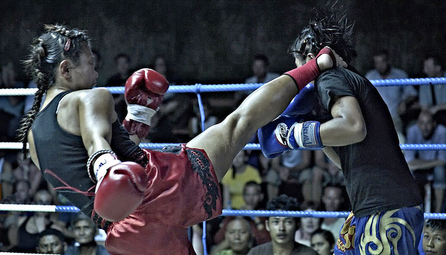 Women's muay thai match